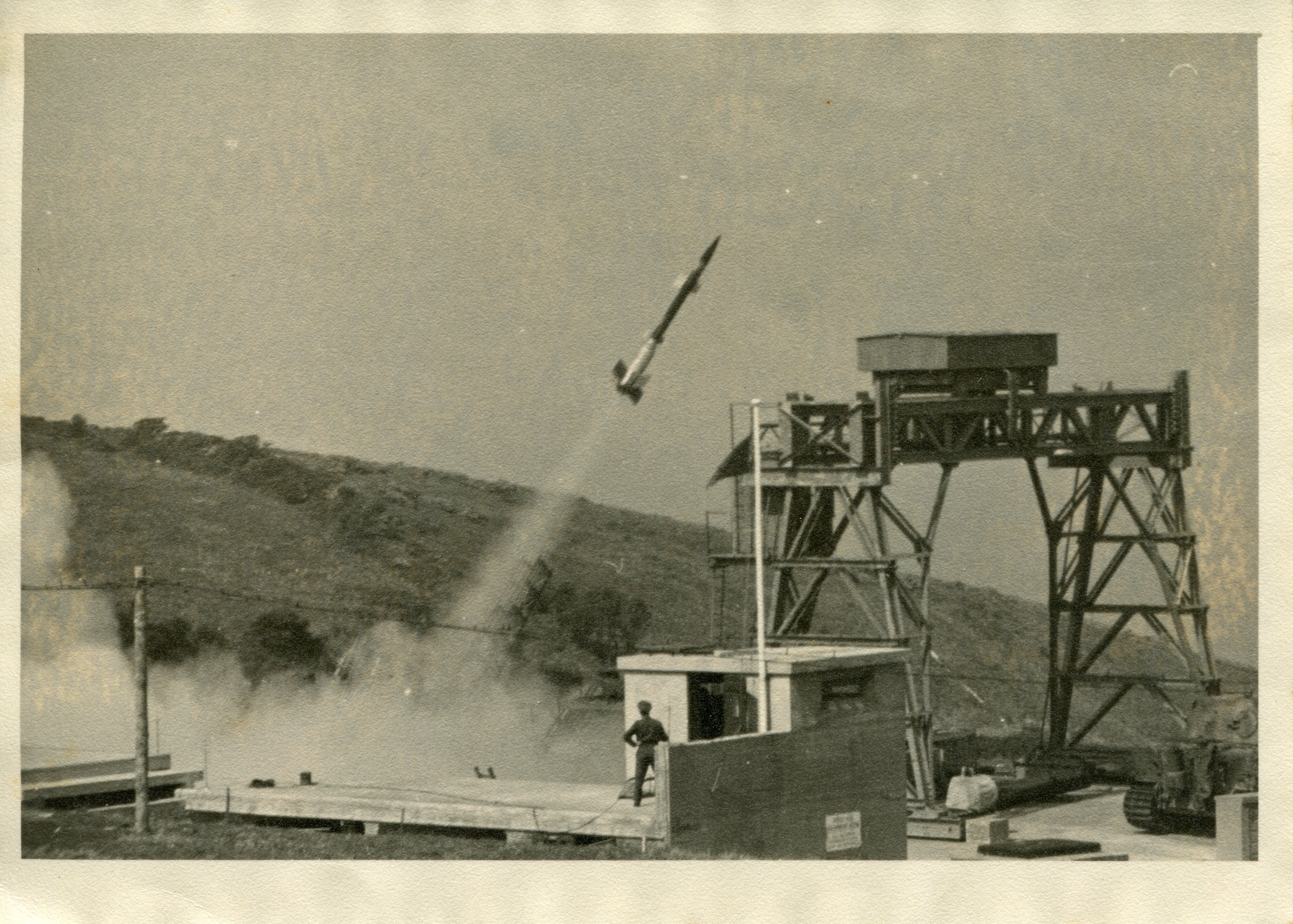 Early telemetry test missile